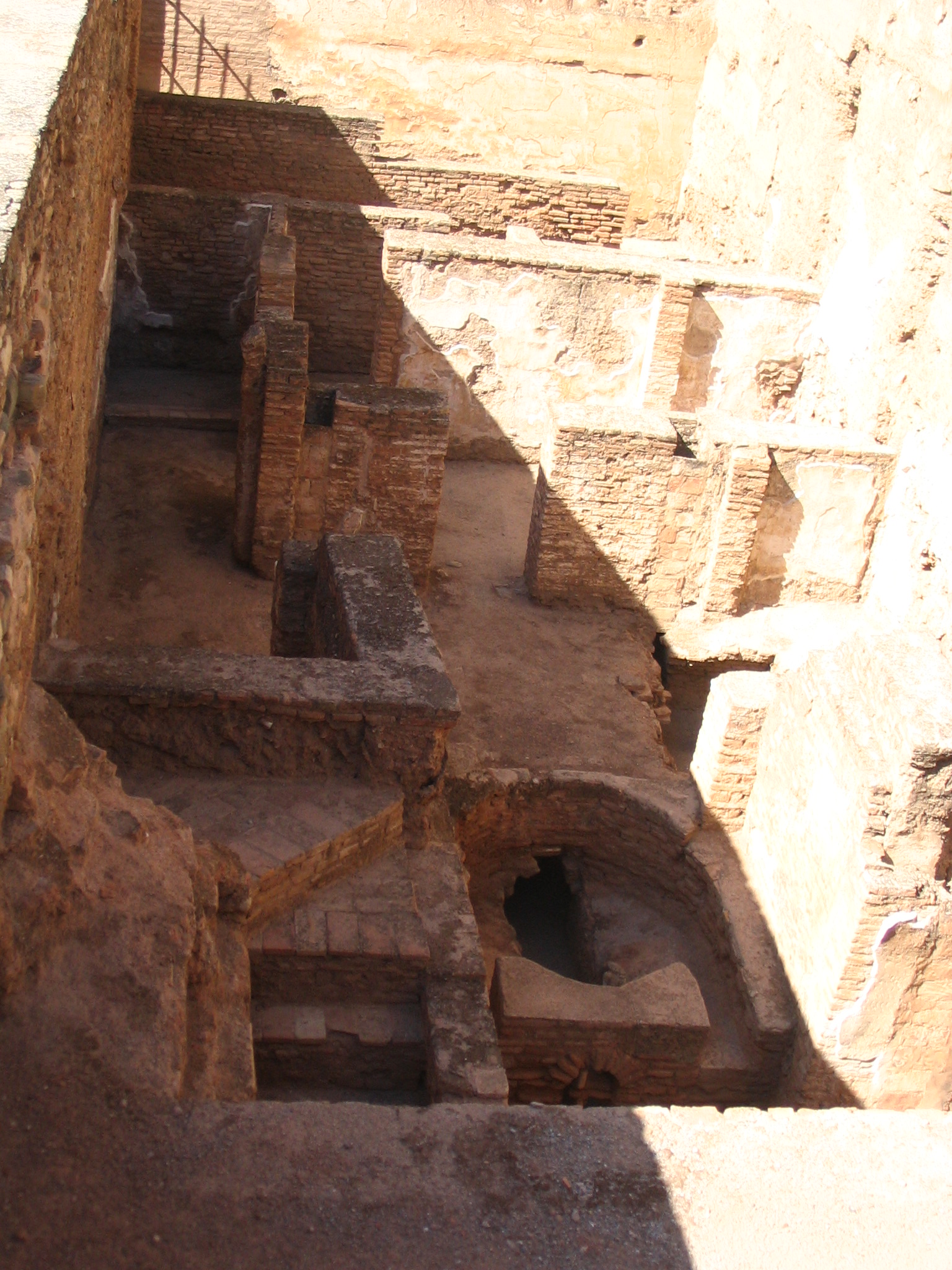 Picture taken by myself.